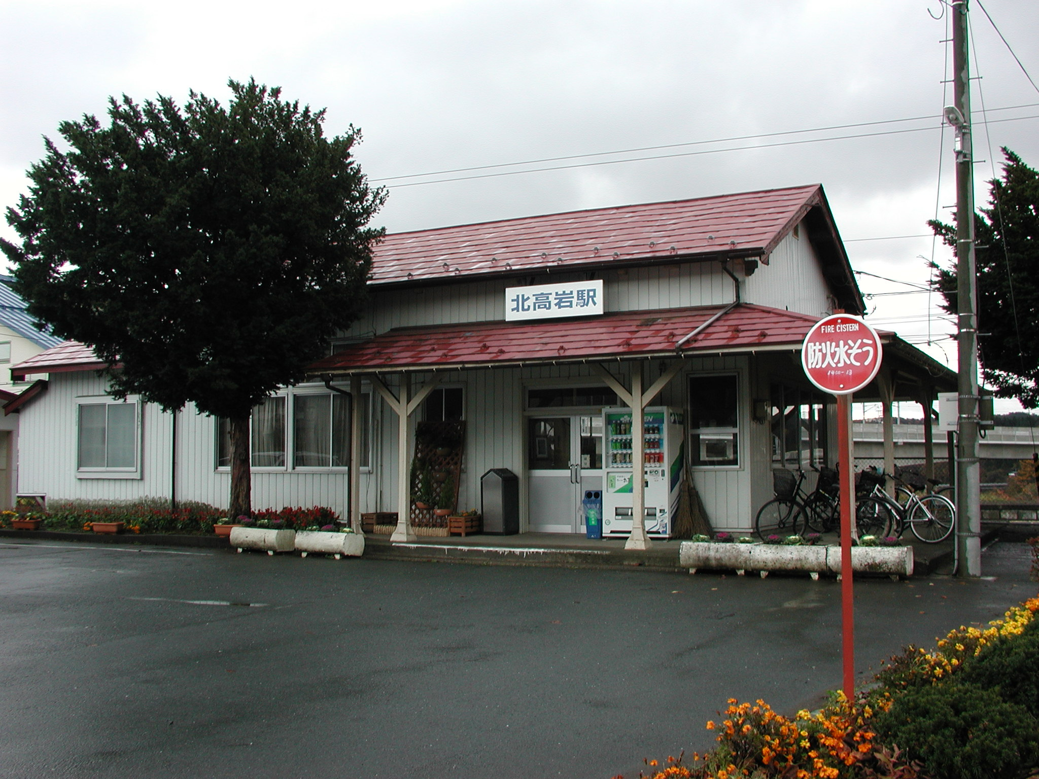 Kita-Takaiwa Station